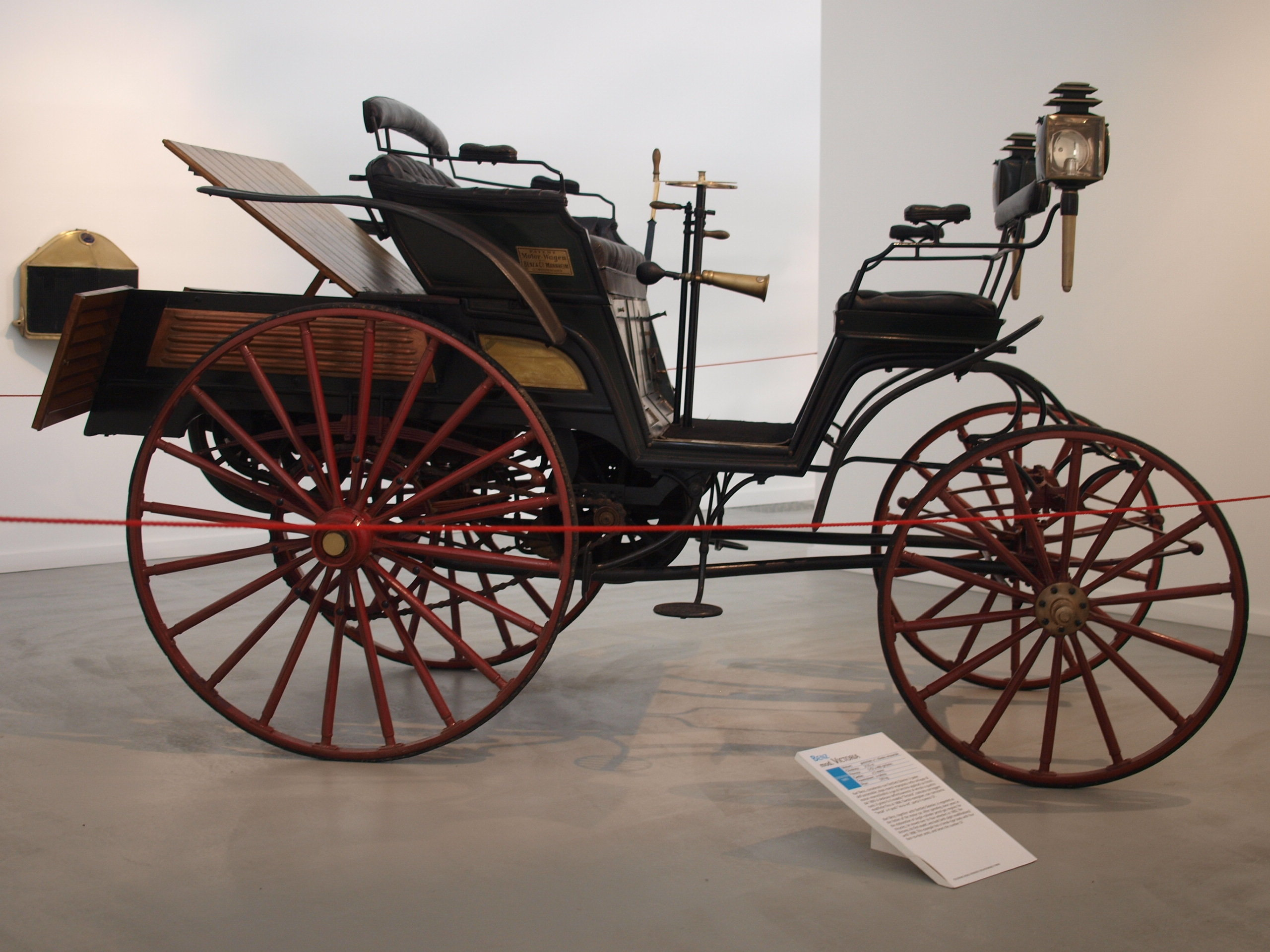 Benz Vis-à-Vis at L'evoluzione dell'automobile.(The museum placard misidentifies this as a Benz Victoria, which has a distinctly different body type.)